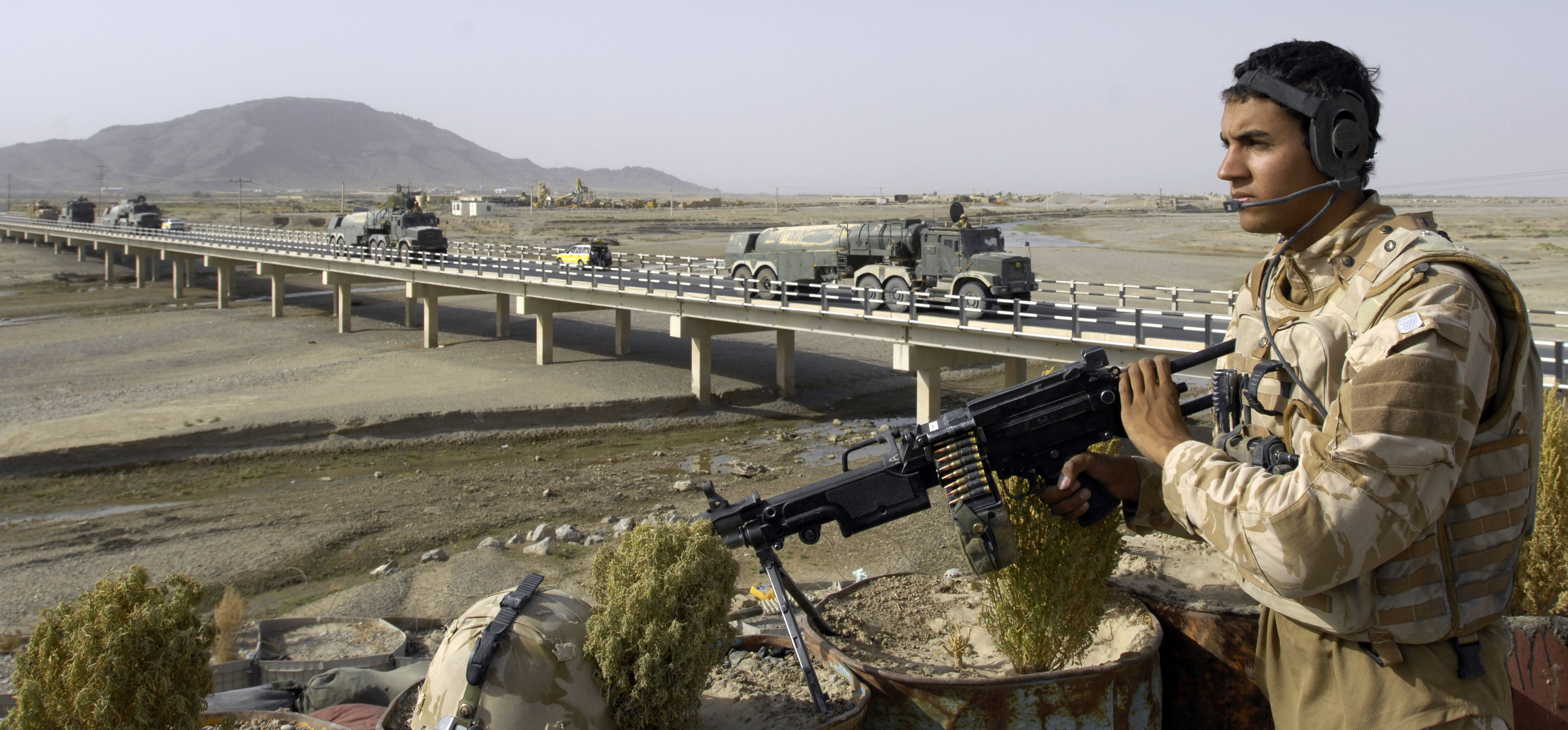 KANDAHAR, Afghanistan--Senior Aircraftman Matty Amin, from the 3rd Squadron Royal Air Force Regiment (RAF) A-flight, provides security for a convoy of fuel trucks at an over watch position on an International Security Assistance Force mission on July 20, 2008. The RAF routinely patrols the area surrounding Kandahar Air Field to prevent rocket attacks to the base. (ISAF photo by Mass Communication Specialist 1st Class John Collins, U.S. Navy)